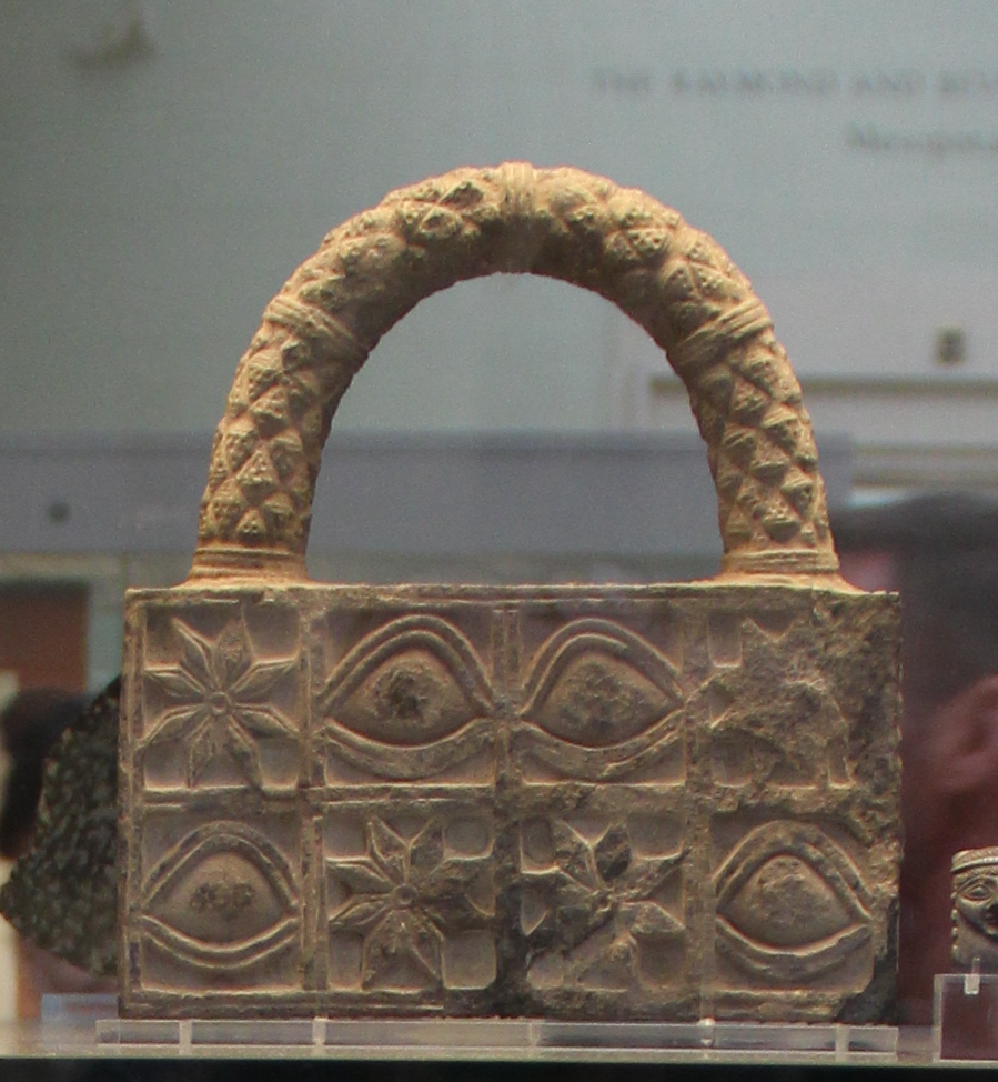 Carved stone with handle Ur 2500 BCE